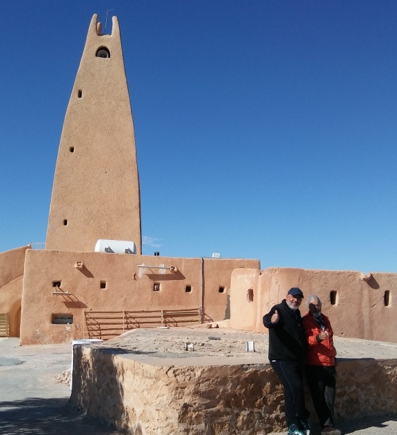 Bounoura 1000 year Mosque